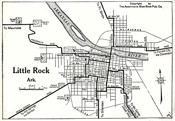 Little Rock street map from 1920. Original listed at copyright information at . Copyright Expired.